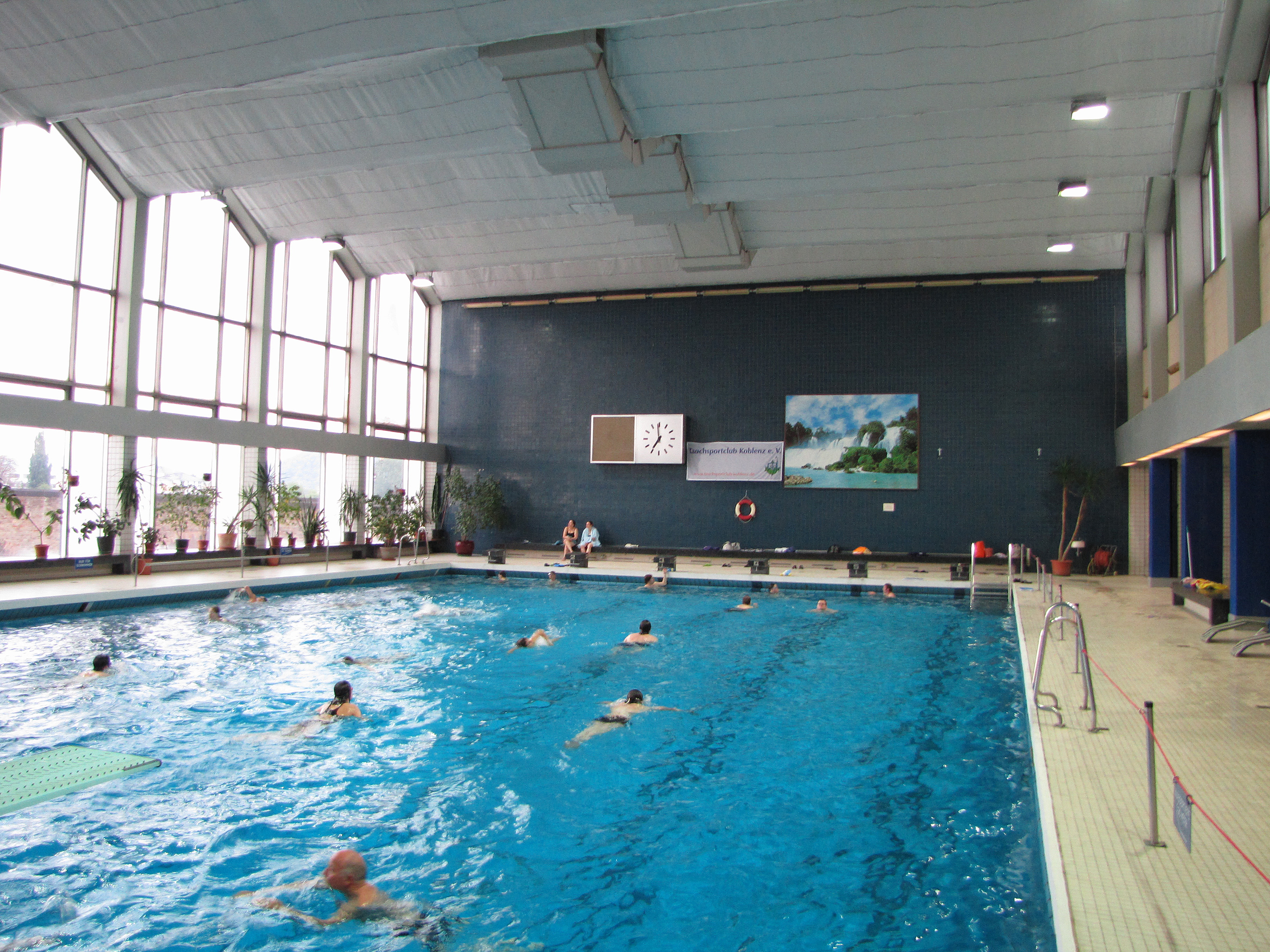 Natatorium in Koblenz